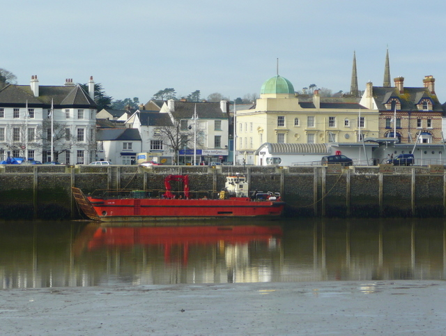 Bideford Quay 1 The red dredger is moored at the town's quay, viewed from East-the-Water.